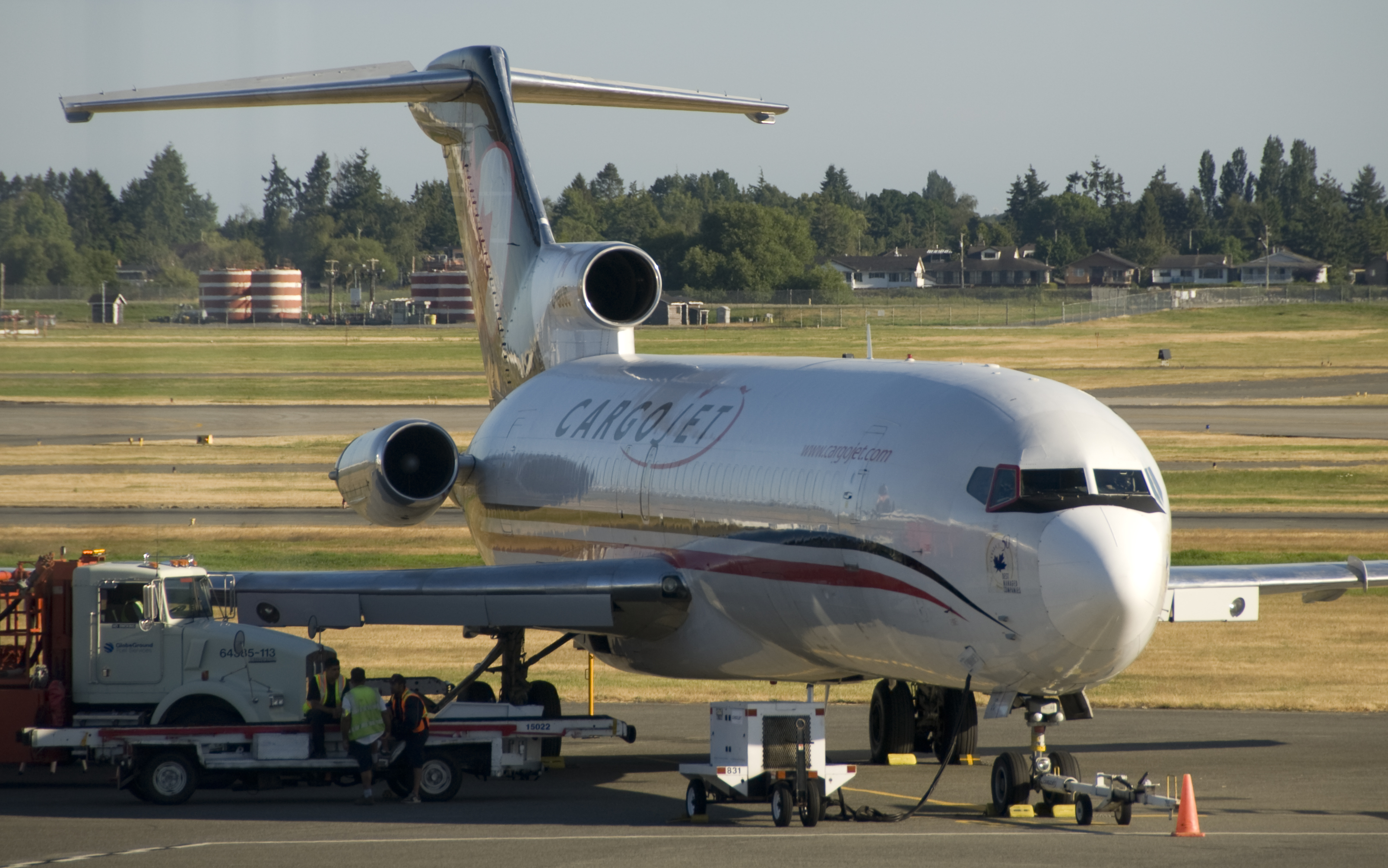 Cargojet Airways Boeing 727-200 at Vancouver International Airport